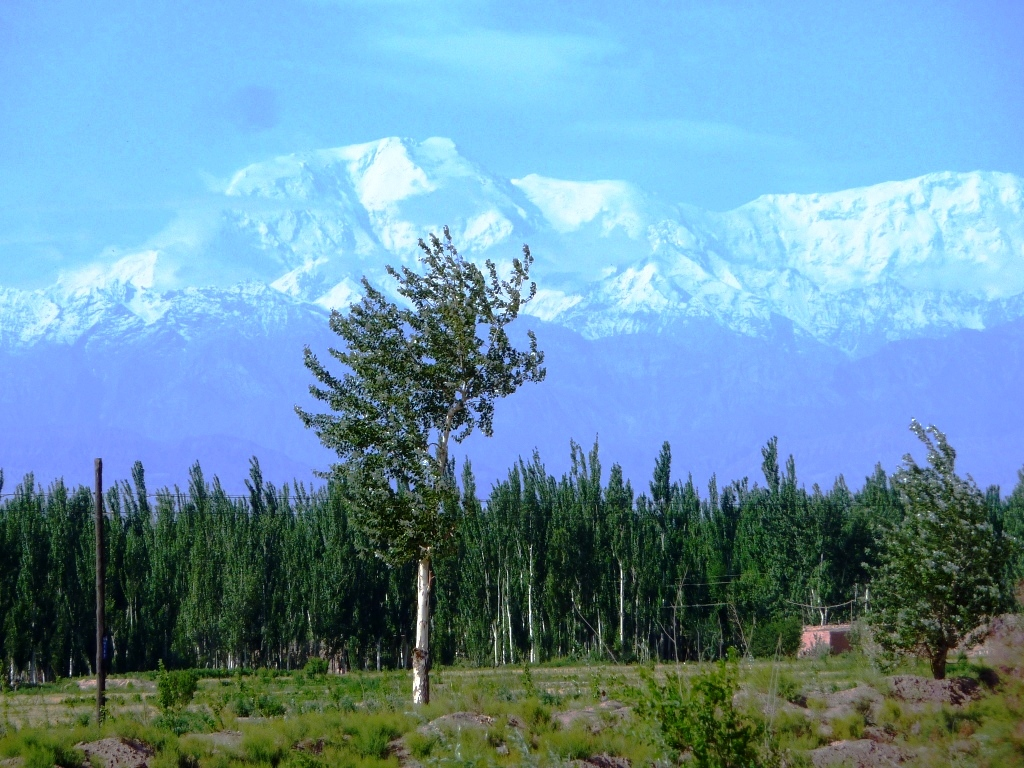 I took this photo on a trip to Tashkurghan in 2011.